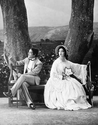 Promotional photo of the Theatre Guild production of A Month in the Country, starring Elliot Cabot and Alla Nazimova